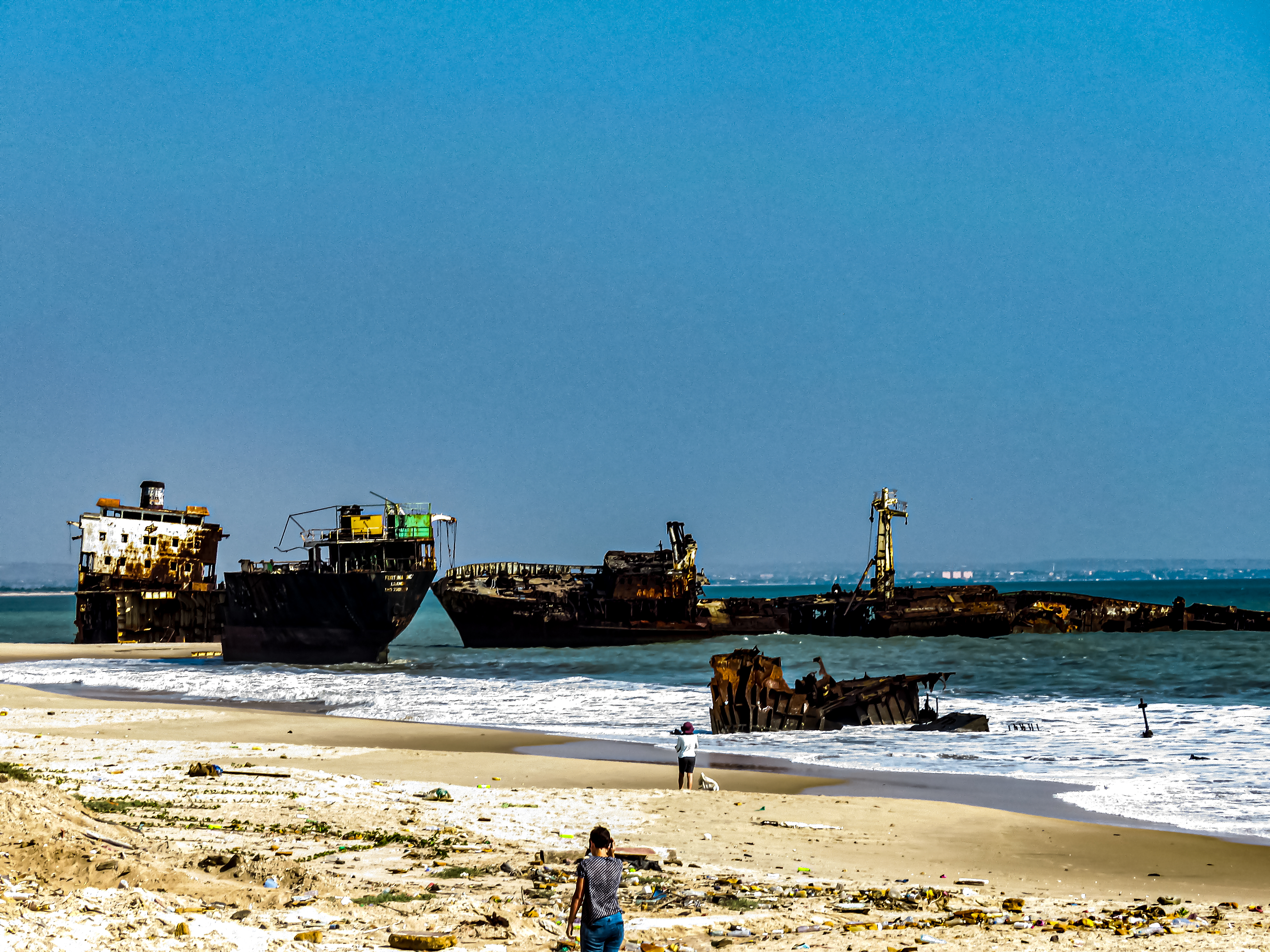 Portuguese stranded deep sea-takers 1975, striped for scrap metal, due to lack of money and food near to Luanda This is an image with the theme "Africa on the Move or Transport" from: Angola